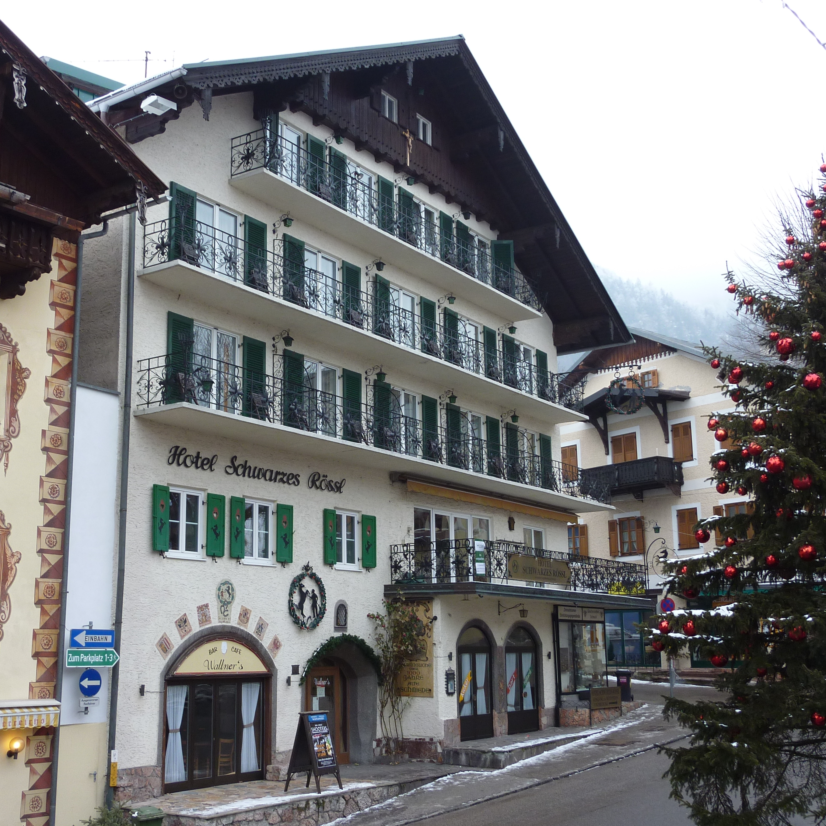 Hotel Schwarzes Roessl in St. Wolfgang at the Lake Wolfgang in Austria